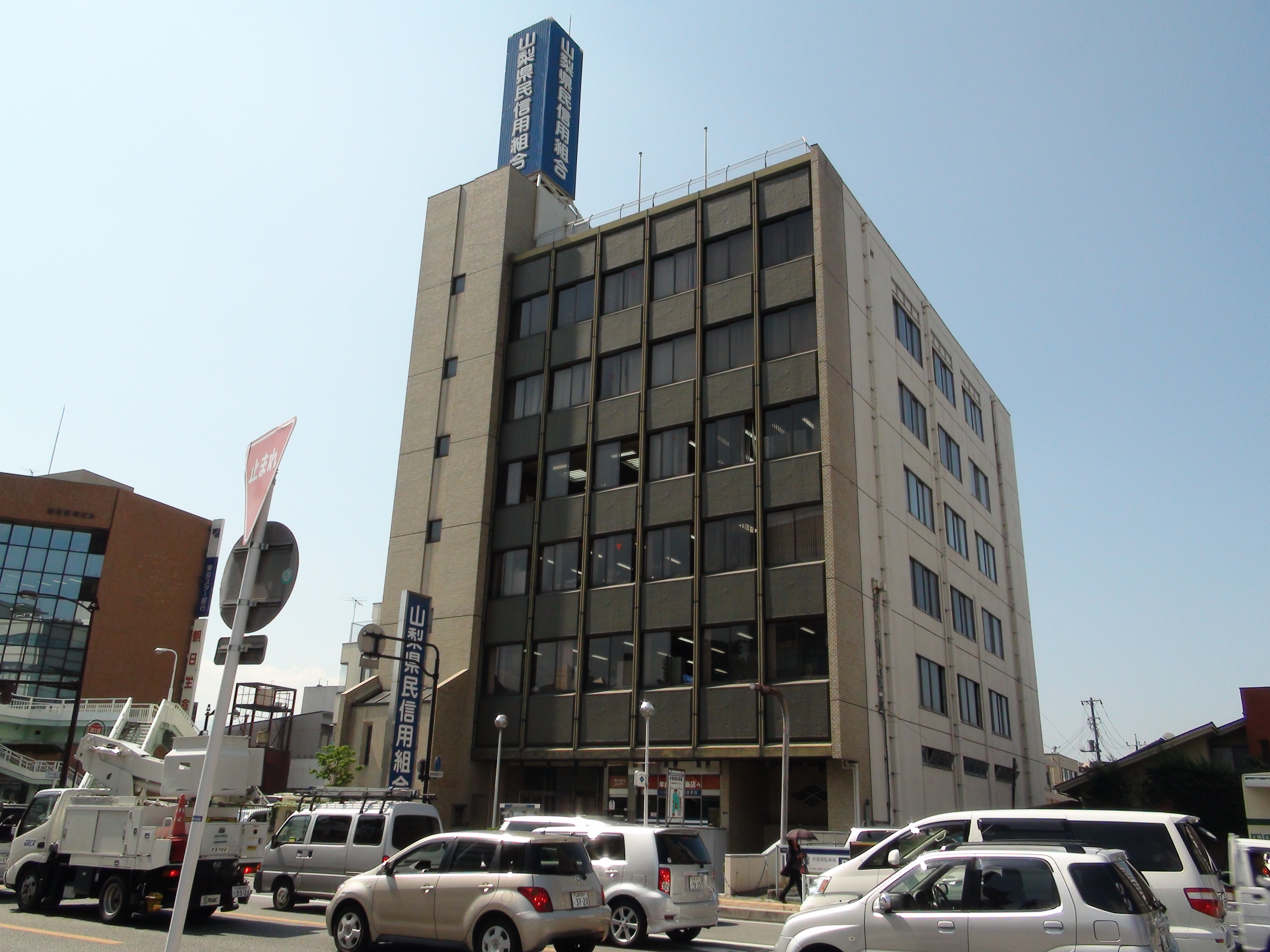 Yamanashi citizen of the prefecture Credit Union head office in Kofu-city